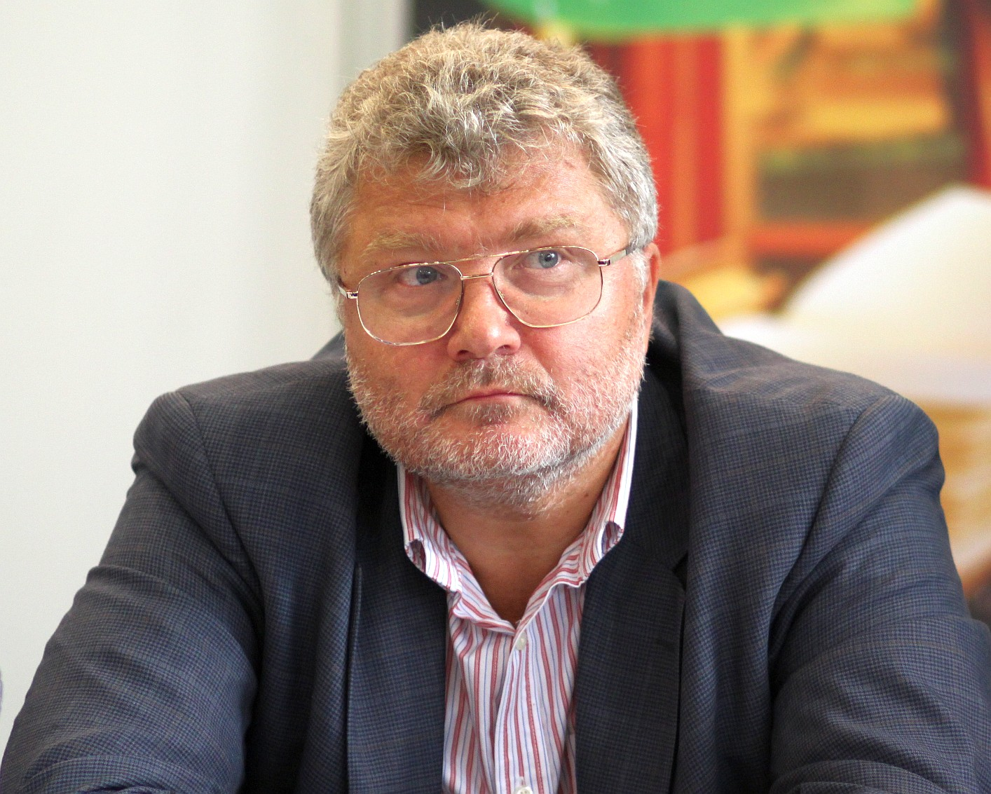 Yury Polyakov, Russian writer and publisher